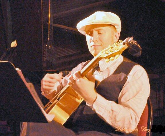 Teagarden, Satch.. swinging